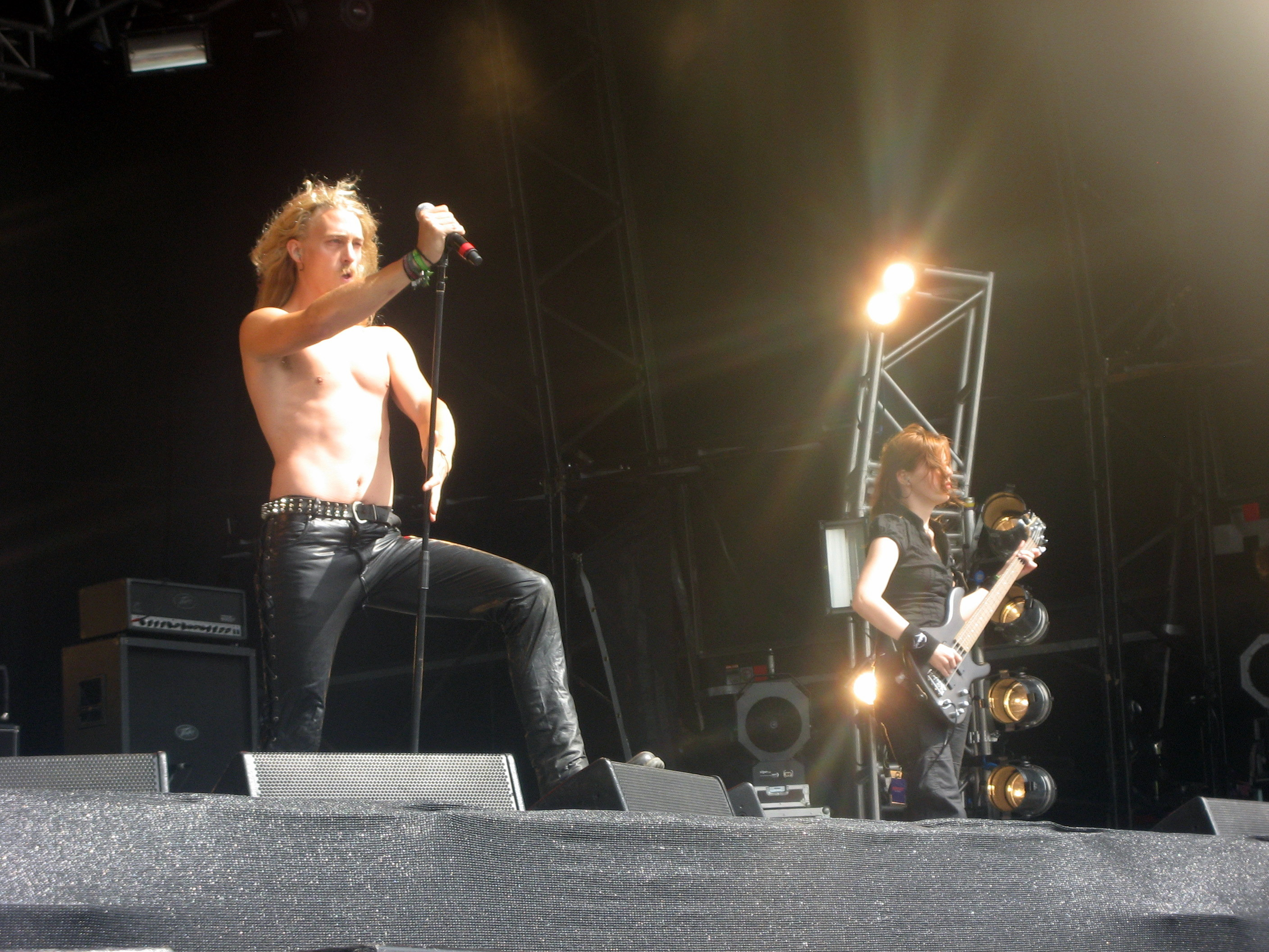 Helge Stang and Sandra Volkl of the German heavy metal band Equilibrium live at Bloodstock Open Air 2009